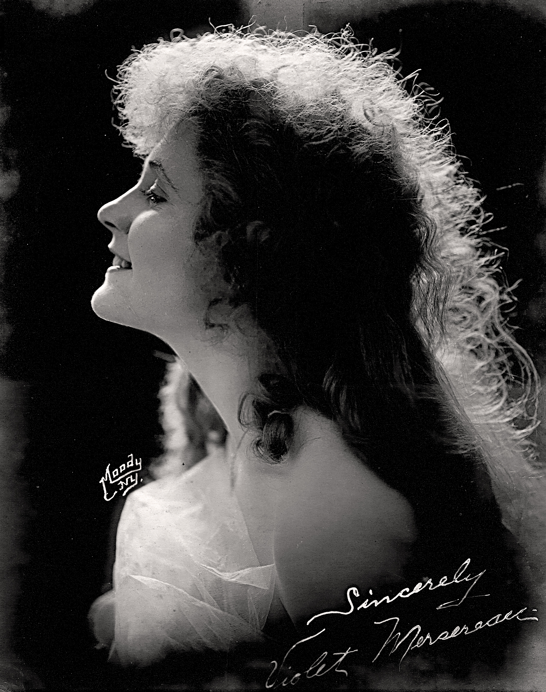 Promotional photo of Violet Mersereau